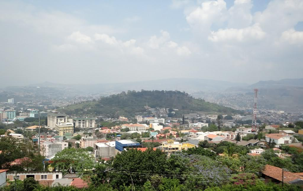 Looking west toward Juan A. Laínez Hill in Tegucigalpa, Honduras.